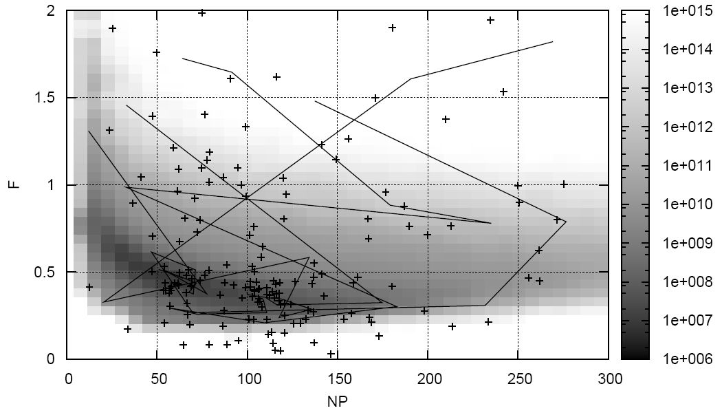 Meta-optimization progress of finding good behavioural parameters NP and F of Differential Evolution (DE) with a fixed parameter CR = 0.9, when DE is used for optimizing several benchmark problems problems in aggregate. Lines show moves made by the meta-optimizer (the method Local Unimodal Sampling, or LUS, is being used as meta-optimizer), crosses show moves contemplated but not taken as they would lead to worse meta-fitness. These are superimposed on the meta-fitness or performance landscape to show the valley of good performing parameters is actually found.